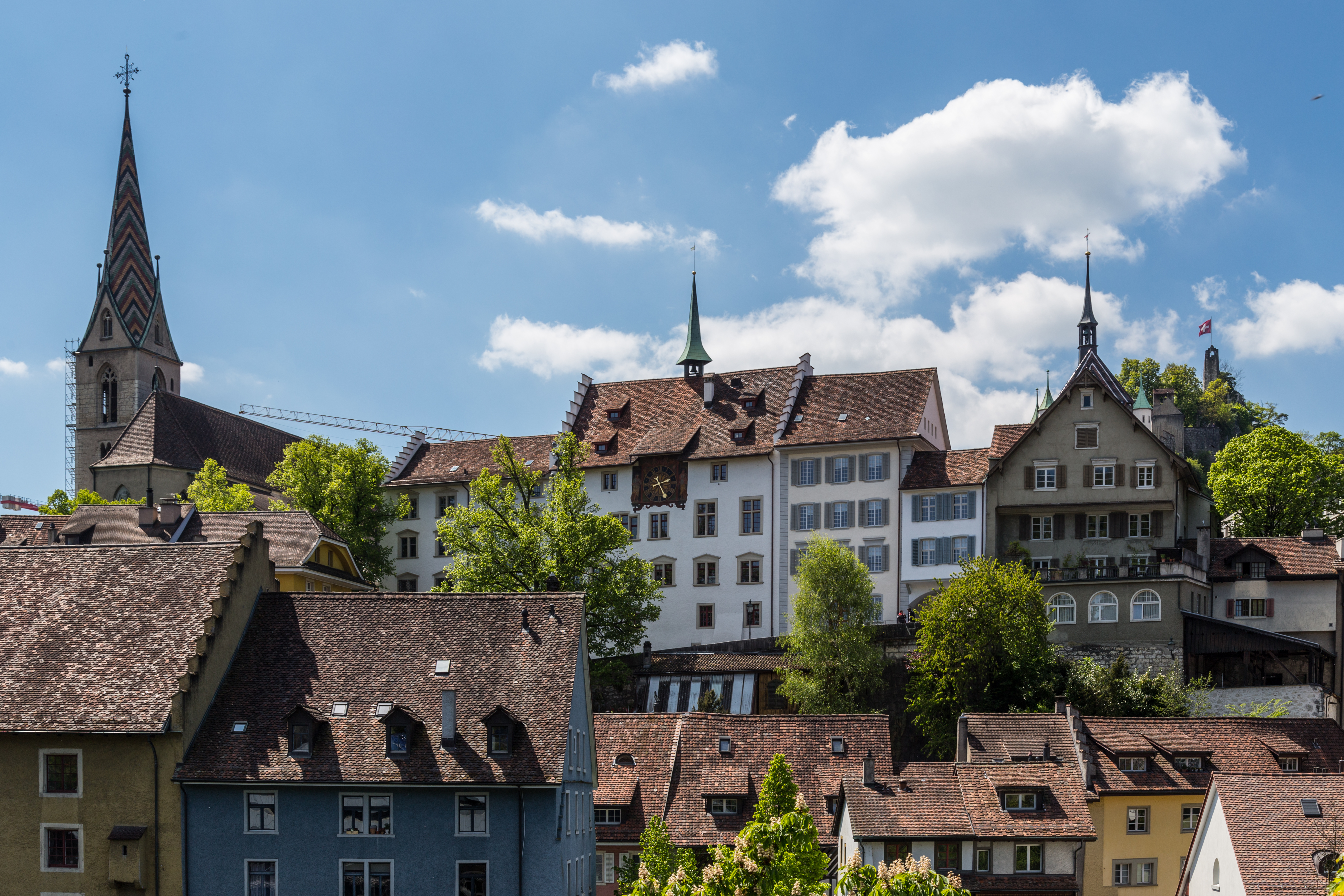 Baden town hall (center, with ridge turret) and surrounding buildings. On the left the church, on the right in the background the castle Stein (with flag) and the roof and turrets of the gate tower (Stadtturm).